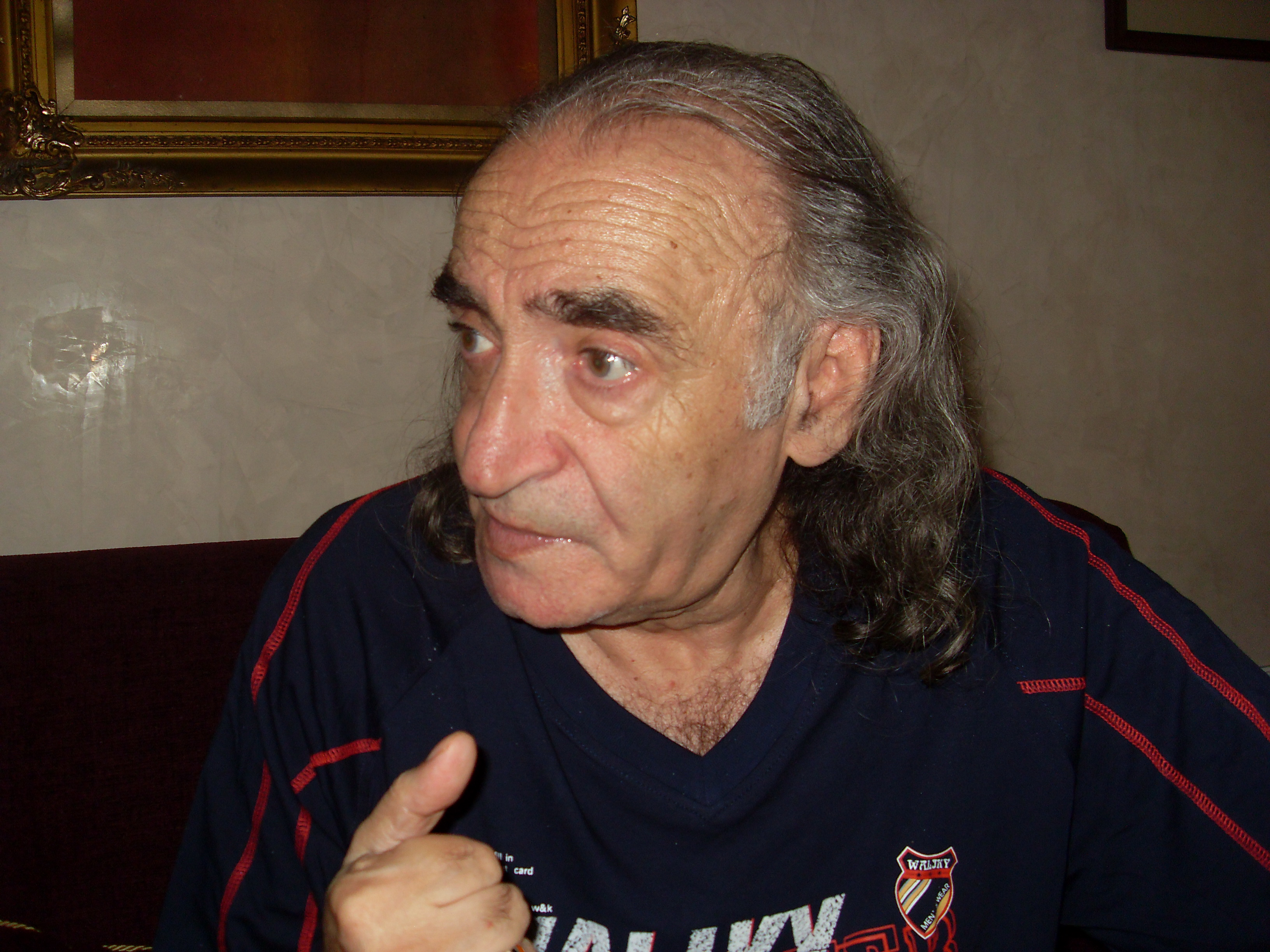 Vladimir Msryan (1938 – 2010) was an Armenian stage and film actor. Yerevan, April, 2010.